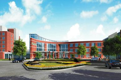 Suburban Hospital Campus Enhancement Rendering 2012